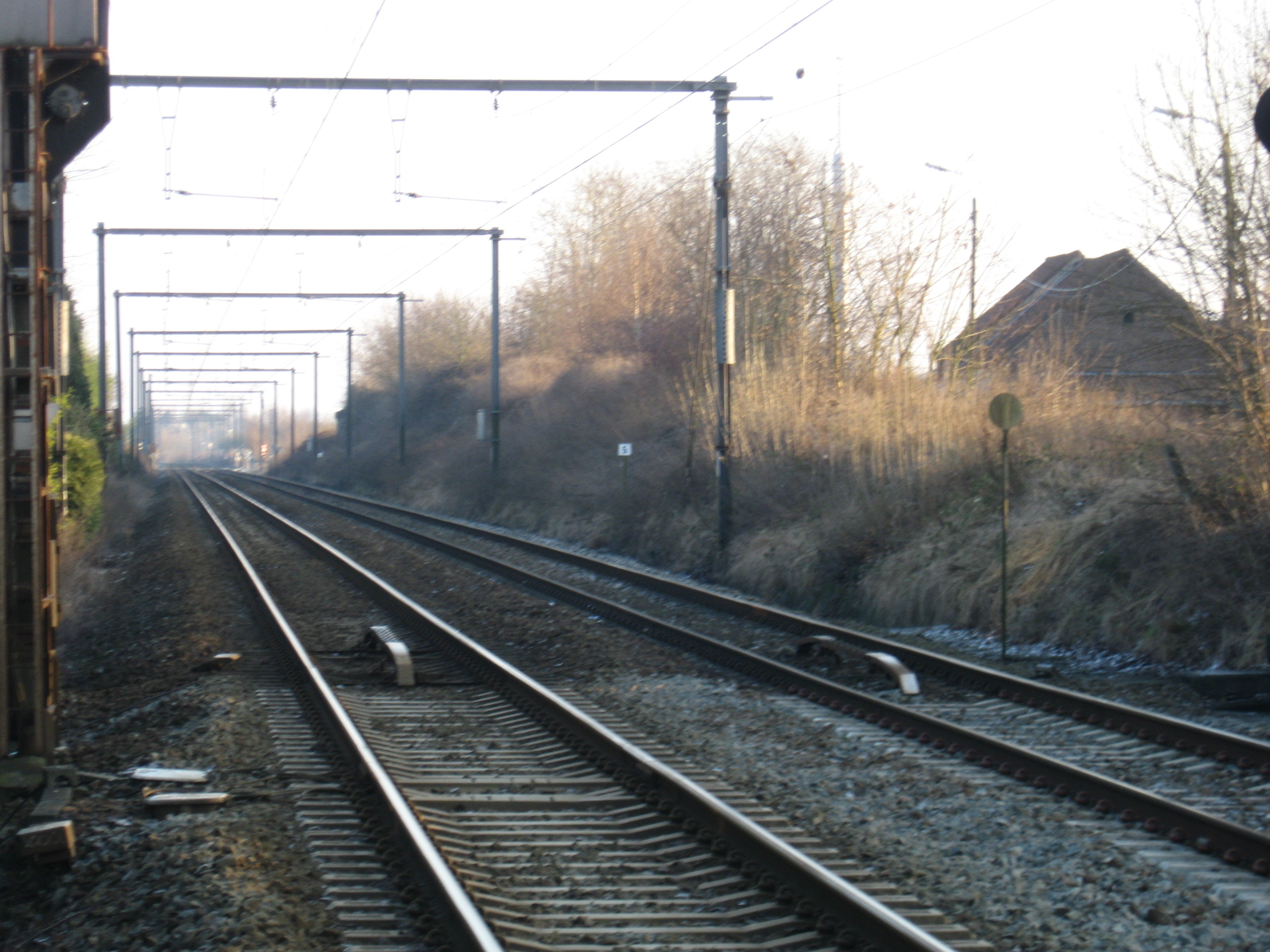 On the right side off the railway ran the vicinal railway Brussels Aalst. (Now overgrown) The embankment gains heigth and crosses over the line with a bridge. (the bridge has been removed. To the South off Asse station on line 60.